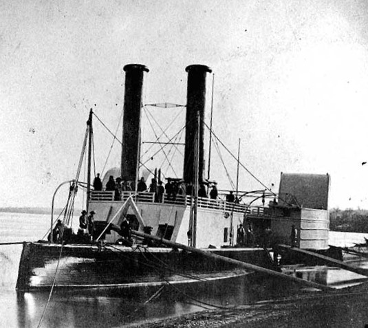 From U.S. Navy public domain Photo #: NH 49973 USS Vindicator (1864-1865) Photographed on the Western Rivers in 1864-65, tied up to the shore. Note glossy paint on her hull, possibly an indication that the photograph may have been taken when Vindicator was first commissioned.